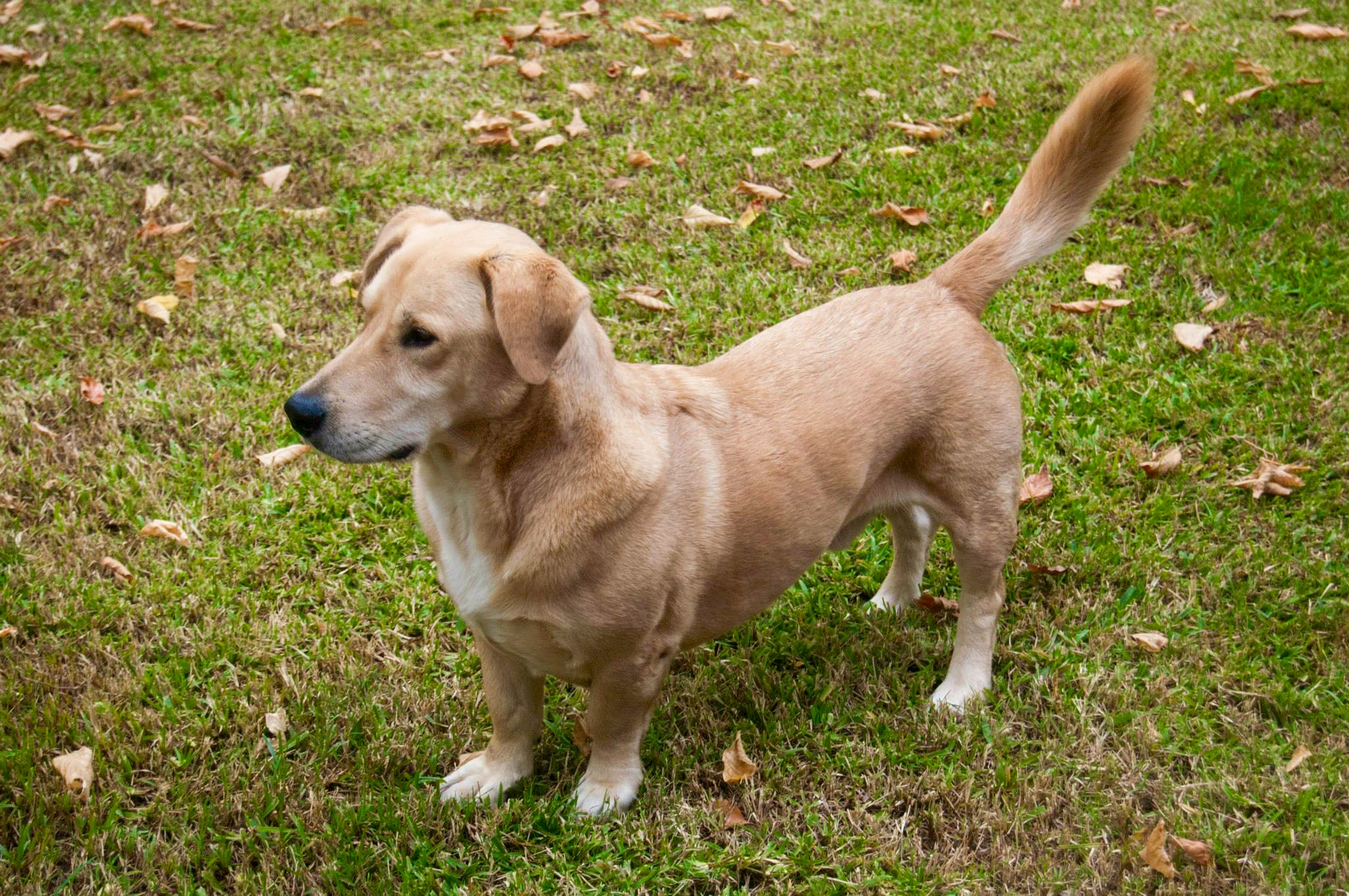 Fred the majestic Bassador stands in a grassy yard